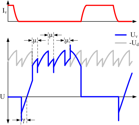 Valve voltage (blue) and current (red) for a six-pulse thyristor converter operating as an inverter with gamma=20 degrees and overlap=20 degrees